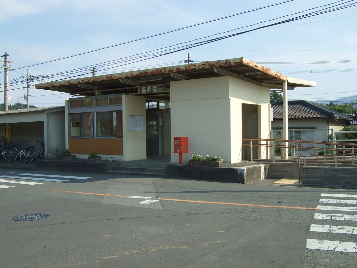 Nakataku Station, Karatsu Line, JR Kyushu.